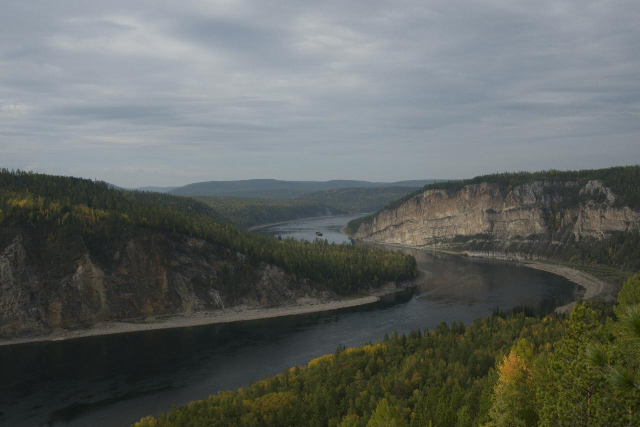 This photos are made during cruise Yakutsk — Lеnskiye Shchyoki, Lena Cheeks — Yakutsk (with arrival in Mirny), 05.09−17.09.2016